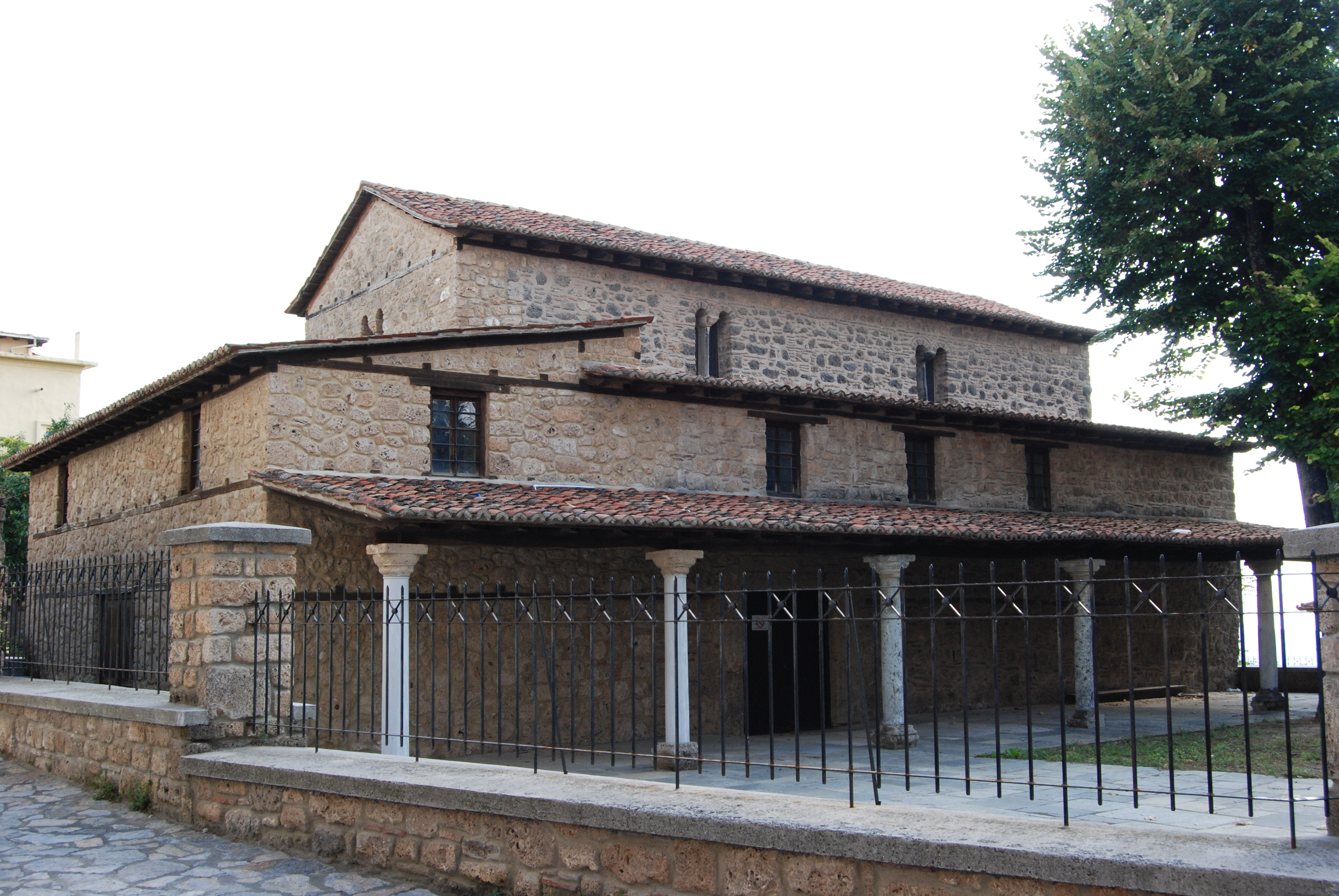 Old Metropolitan Church in Voden 10